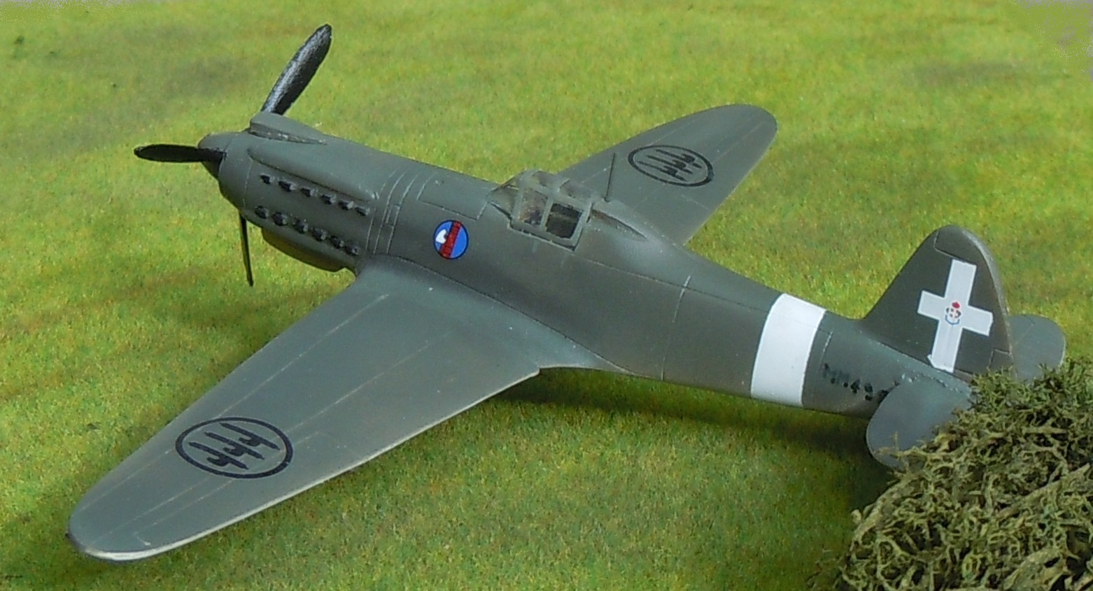 Model of a Caproni-Vizzola F6Z. More pics of the same are on